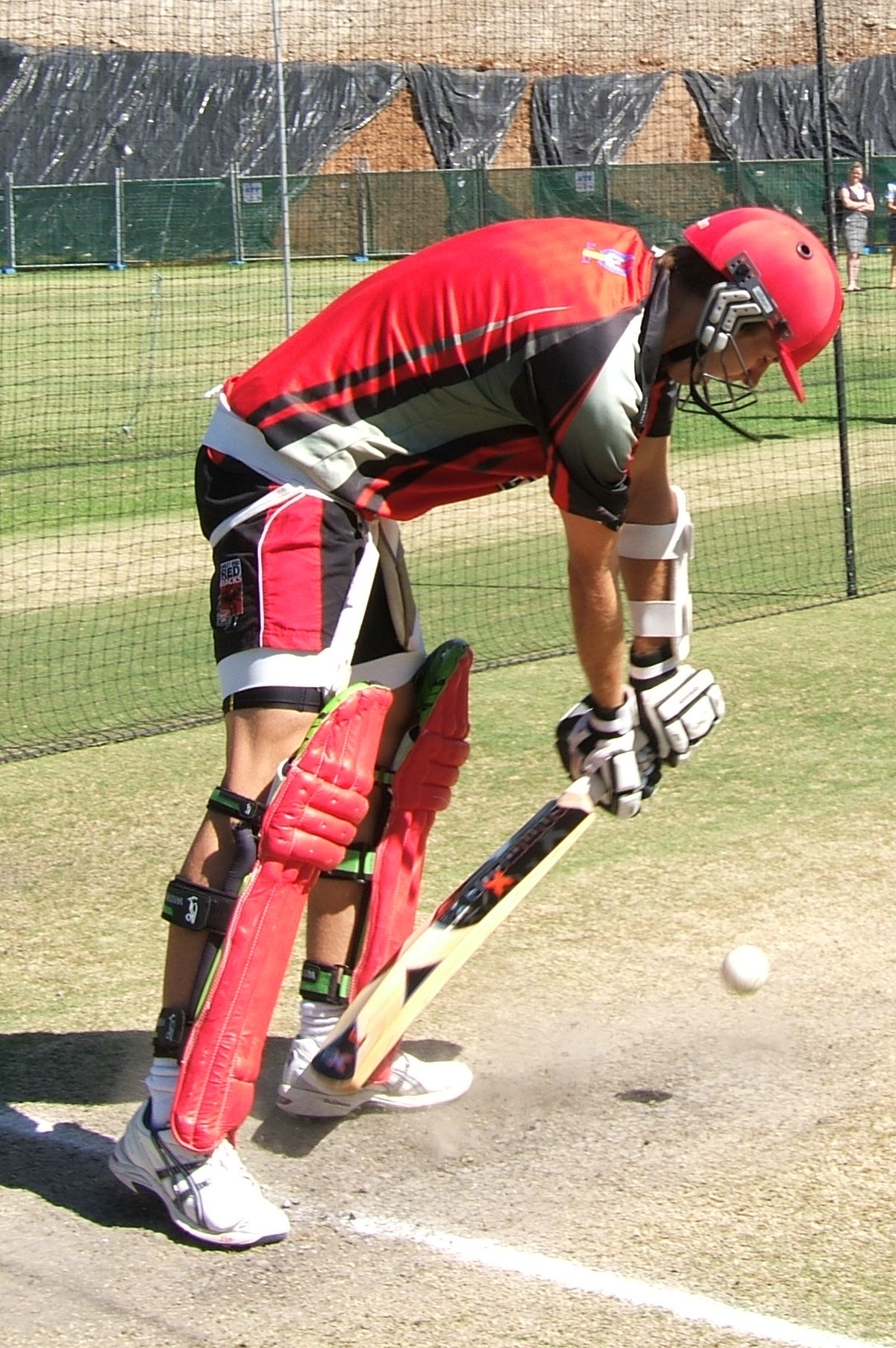 Batsman blocking a yorker at Adelaide Oval nets/training ground